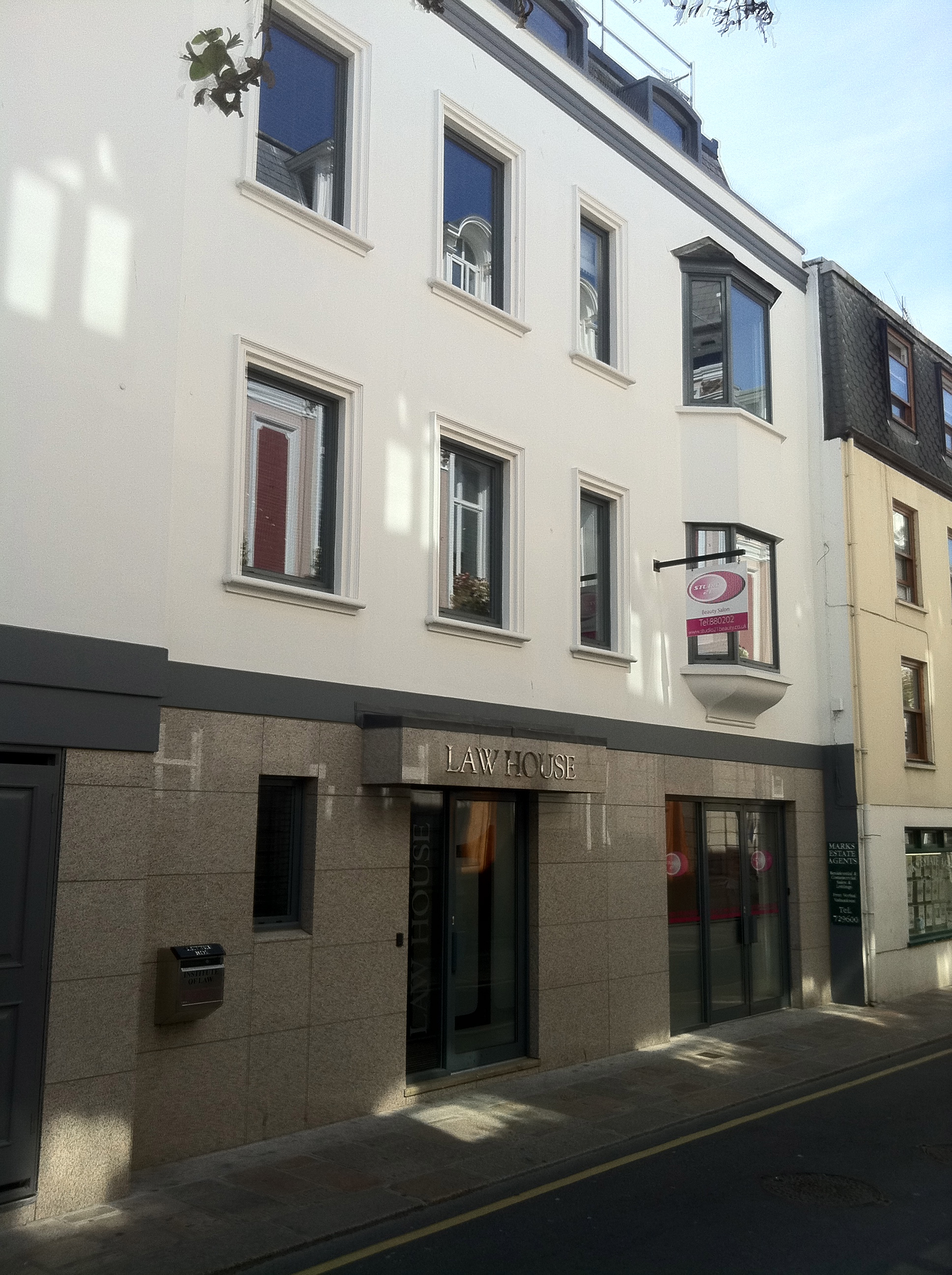 Law House, Institute of Law, Seale Street, St Helier, Jersey